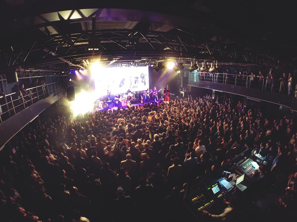 Chinese band Hanggai playing a branded Guinness show at MAO Livehouse(重庆南路308号), Shanghai (2014)